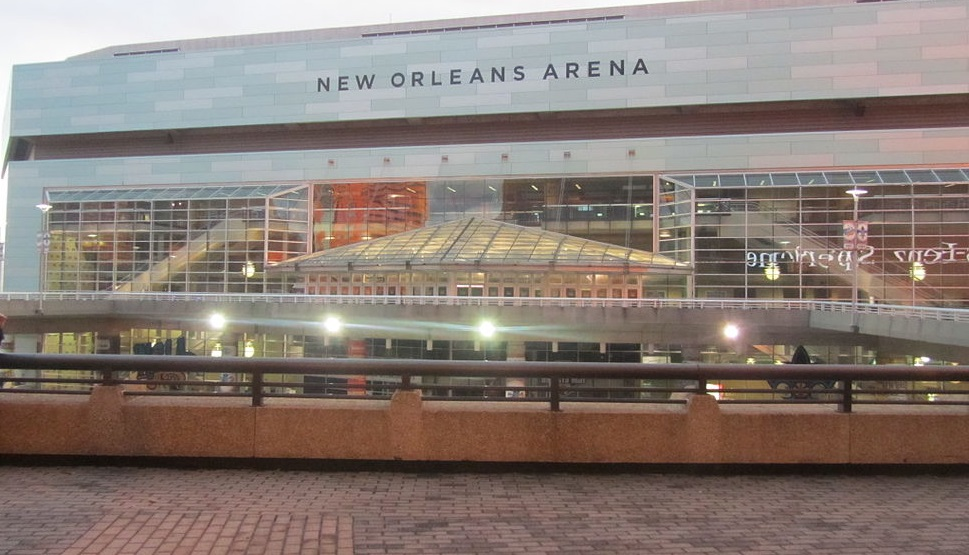 New Orleans Arena (NOLA)